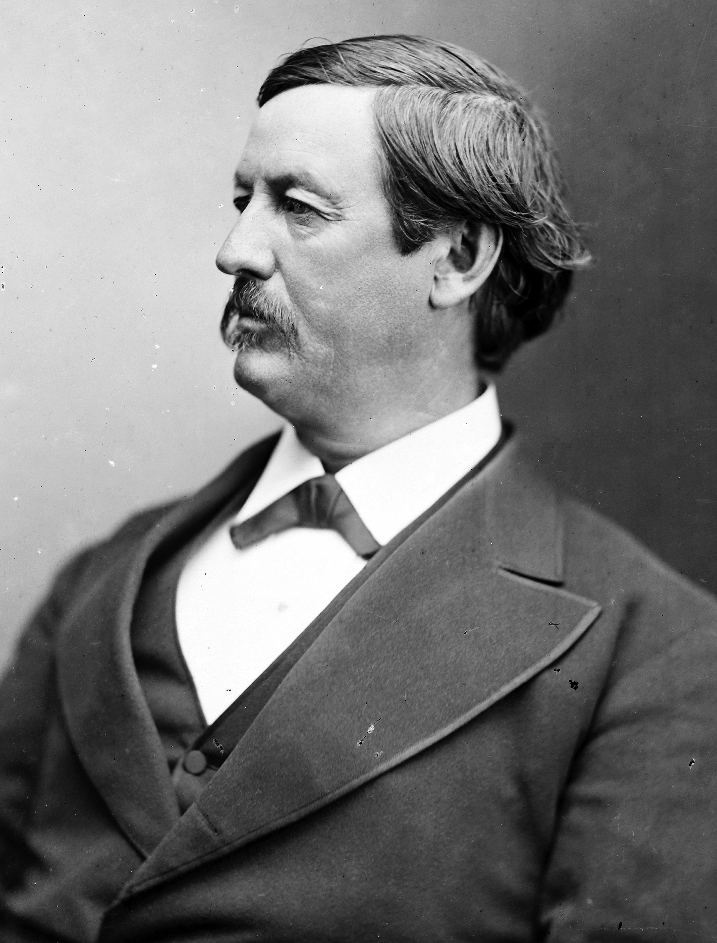 Thomas M. Browne, US Representative from Indiana